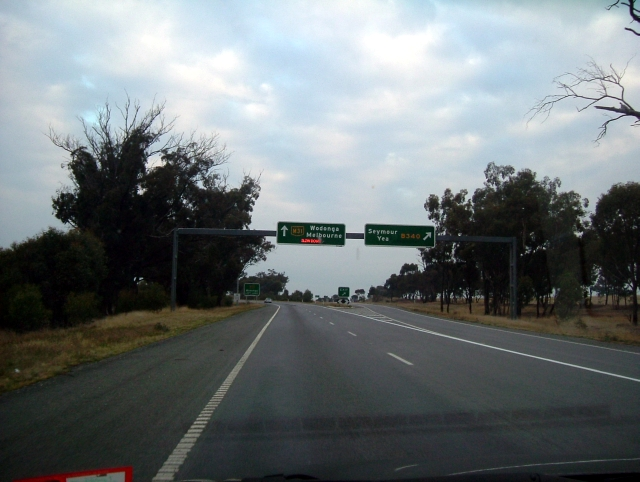 Picture taken myself on 29/4/2006. Anyone can use this image for any reason.